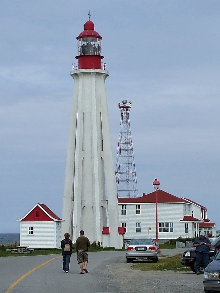 Pointe-au-Pere lighthouse, keeper house and barack of the pilot